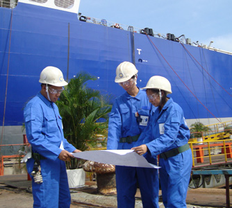 Marine engineers in front of tanker in Florida.